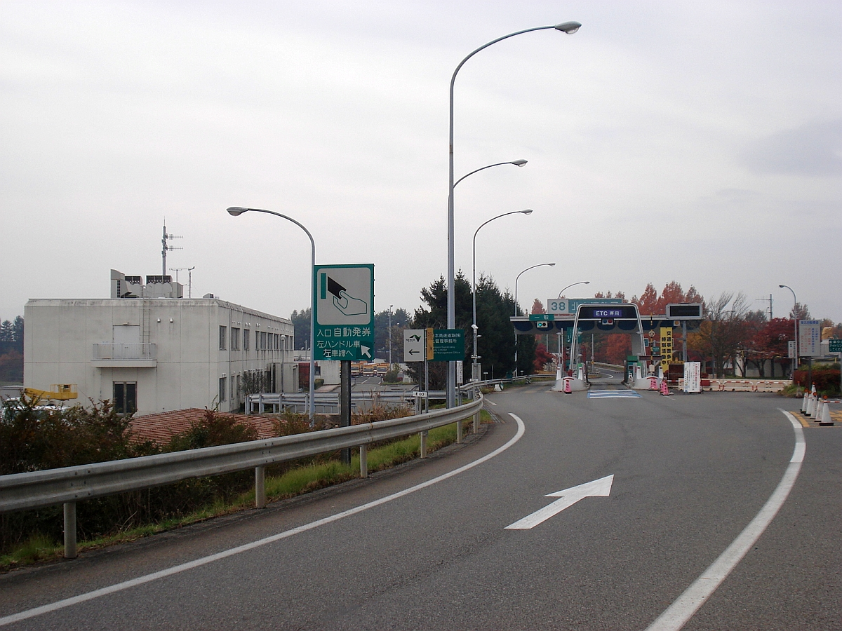 This Interchange, Kitakami-Eduriko Interchange, is on Tohoku Expressway, in Kitakami city, Iwate Prefecture, Japan.